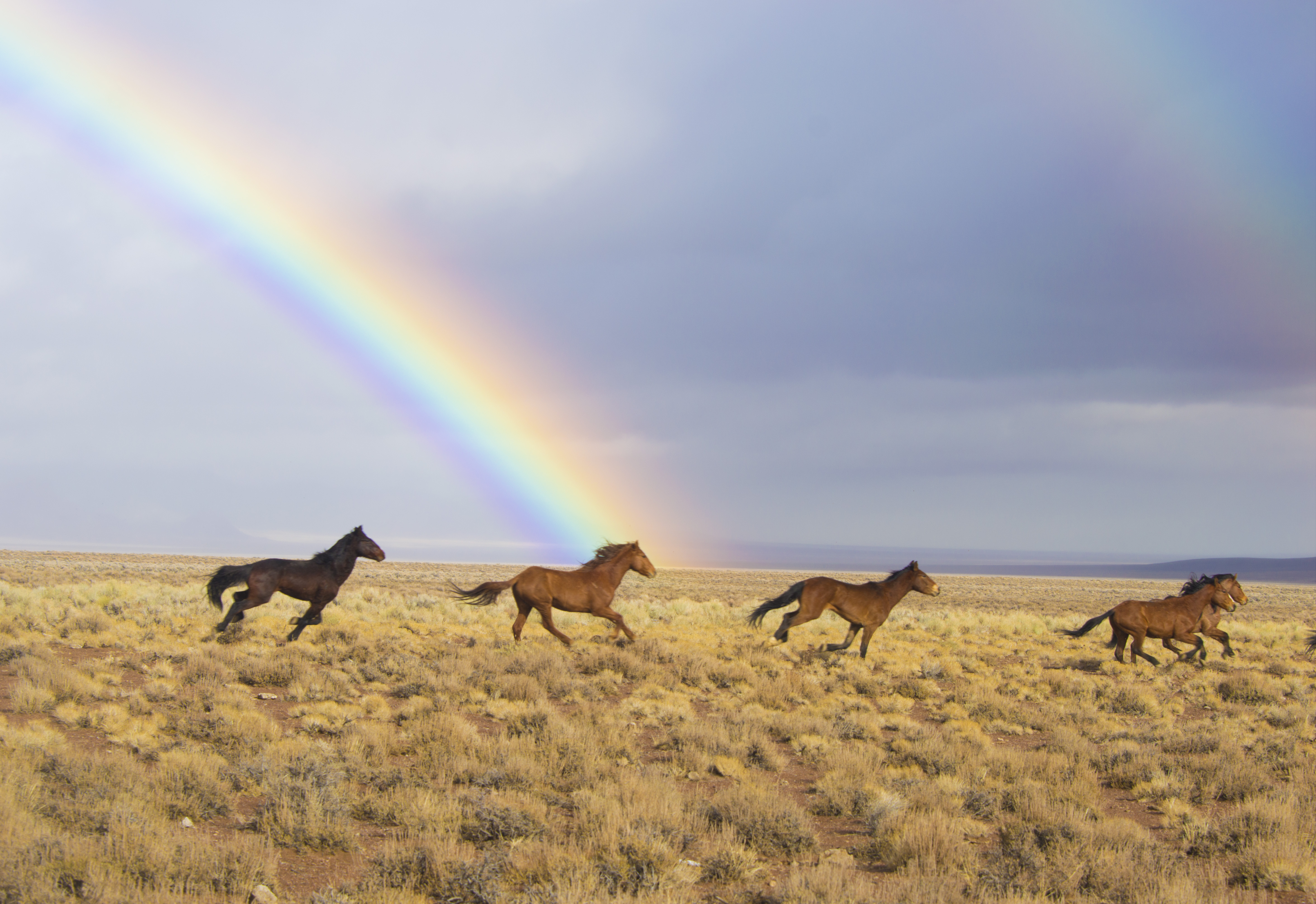 Wild horses being released back onto the range in central Nevada, about 50 miles east of Tonopah and 12 miles south of Warm Springs, Nevada, in Nye County.